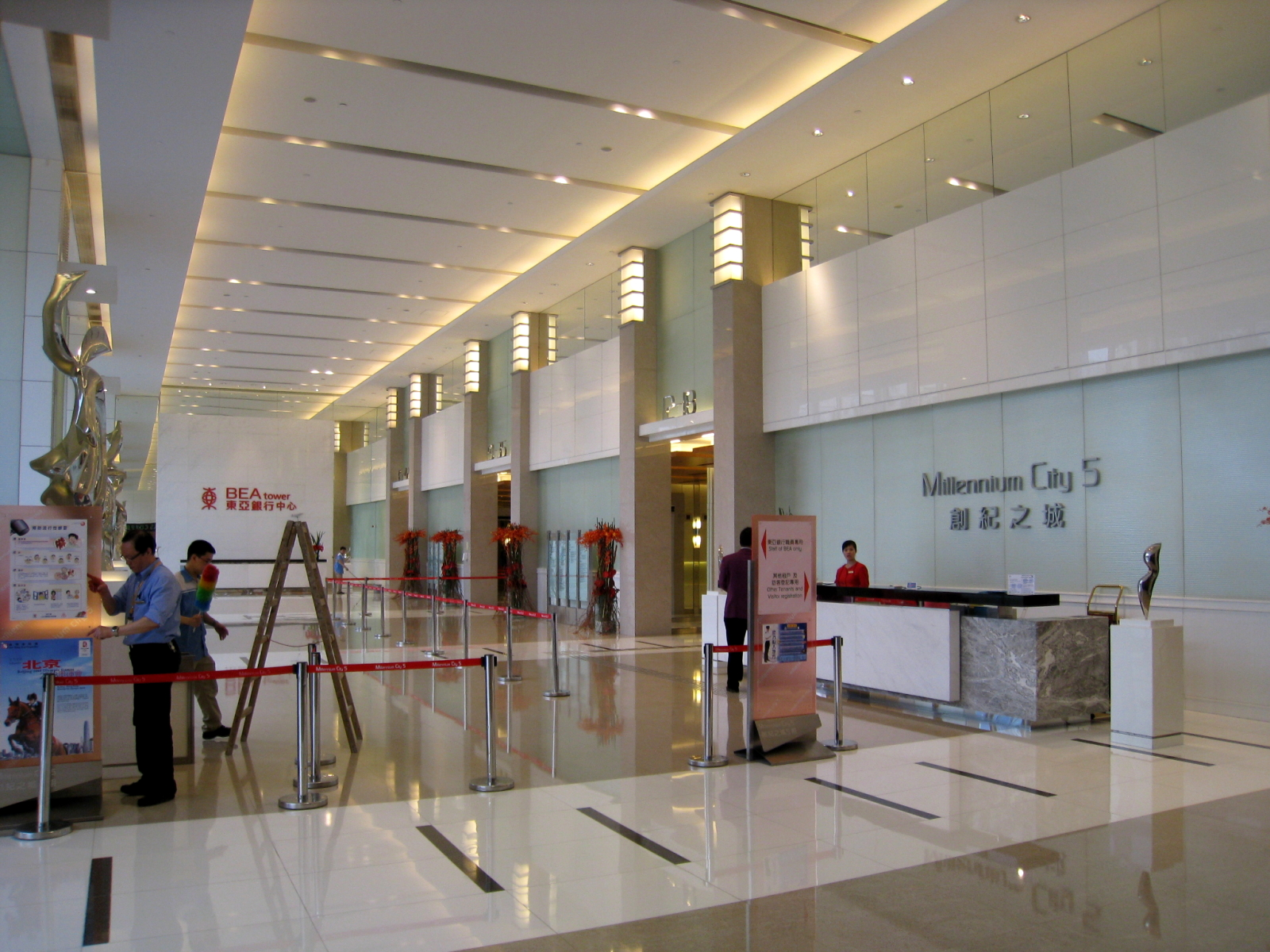 HK Millennium City 5 Office Lobby 中文（香港）: 創紀之城五期辦公室大堂